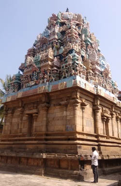 Thanjavur Veeranarasimhaperumaltemple தஞ்சாவூர் வீரநரசிம்மப்பெருமாள்கோயில்